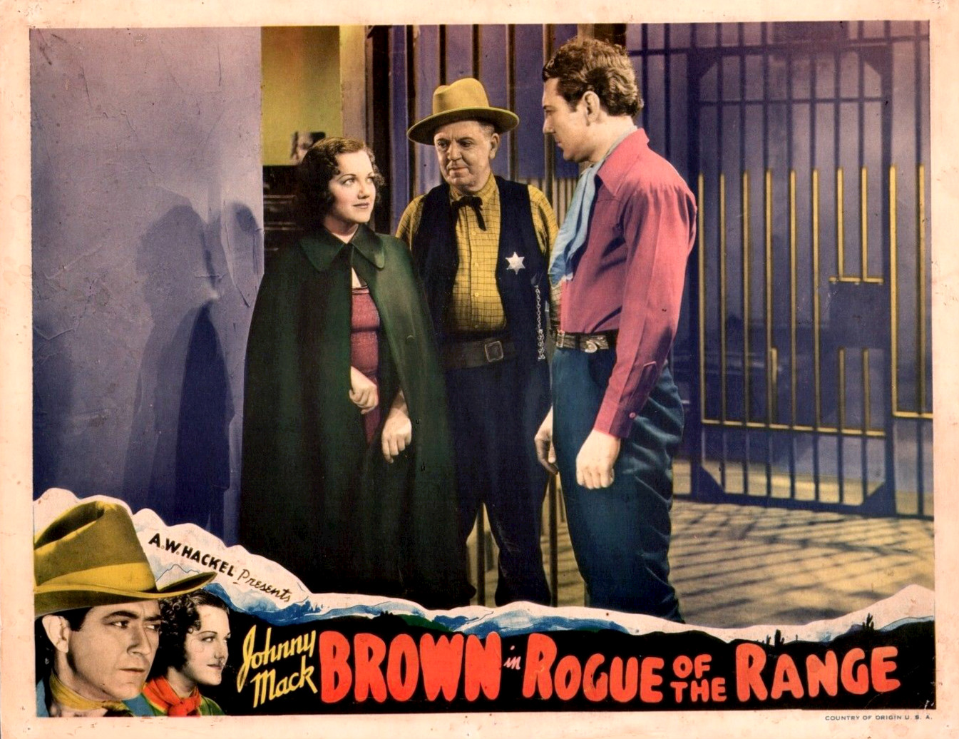 Lobby card from the American western film Rogue of the Range (1936) with Lois January, Horace Murphy, and Johnny Mack Brown.